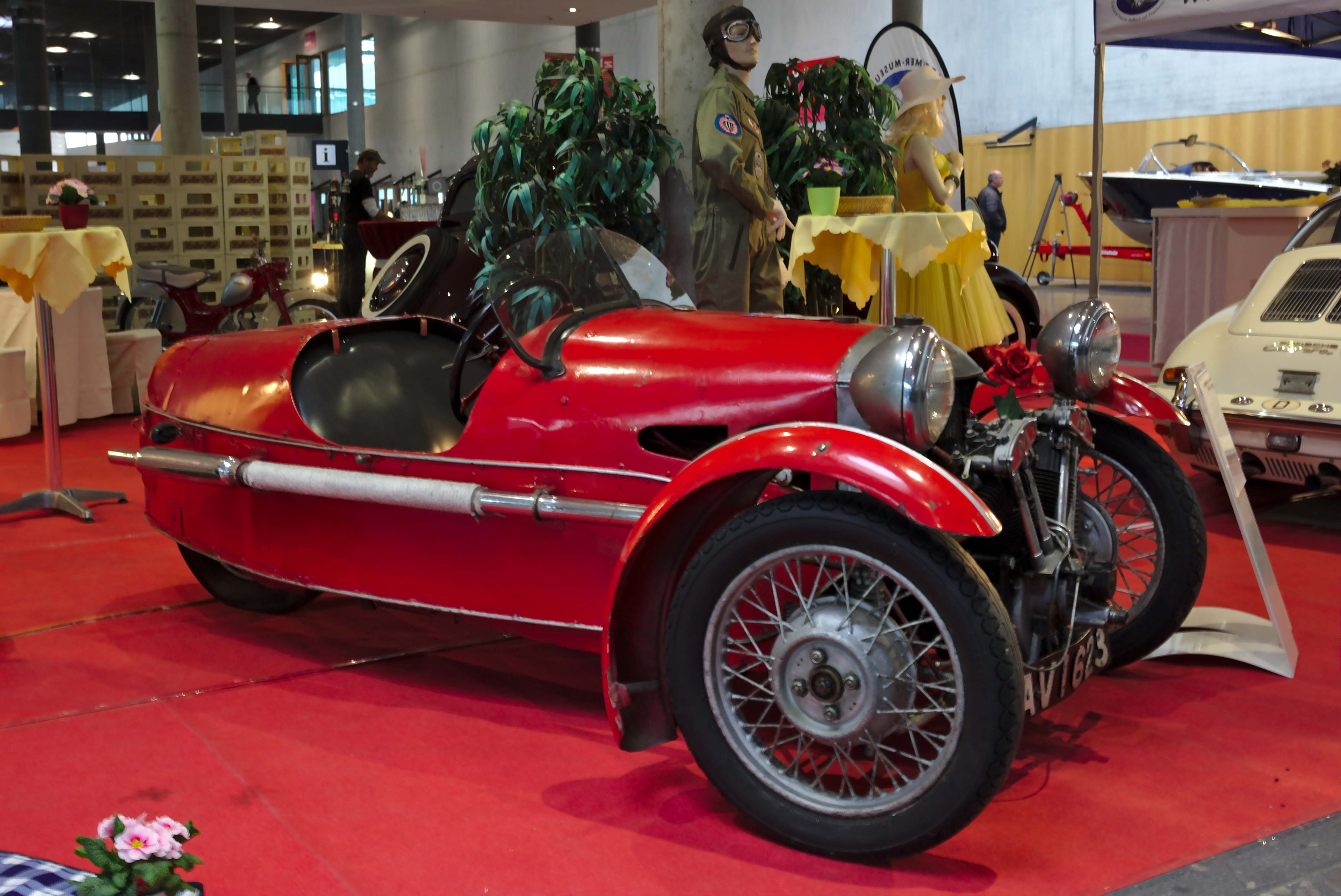 Morgan Threewheeler at Retro Classics 2018